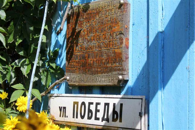 Table at Thienemann House in Rossitten (Rybachy) in Kaliningrad Oblast in Russia